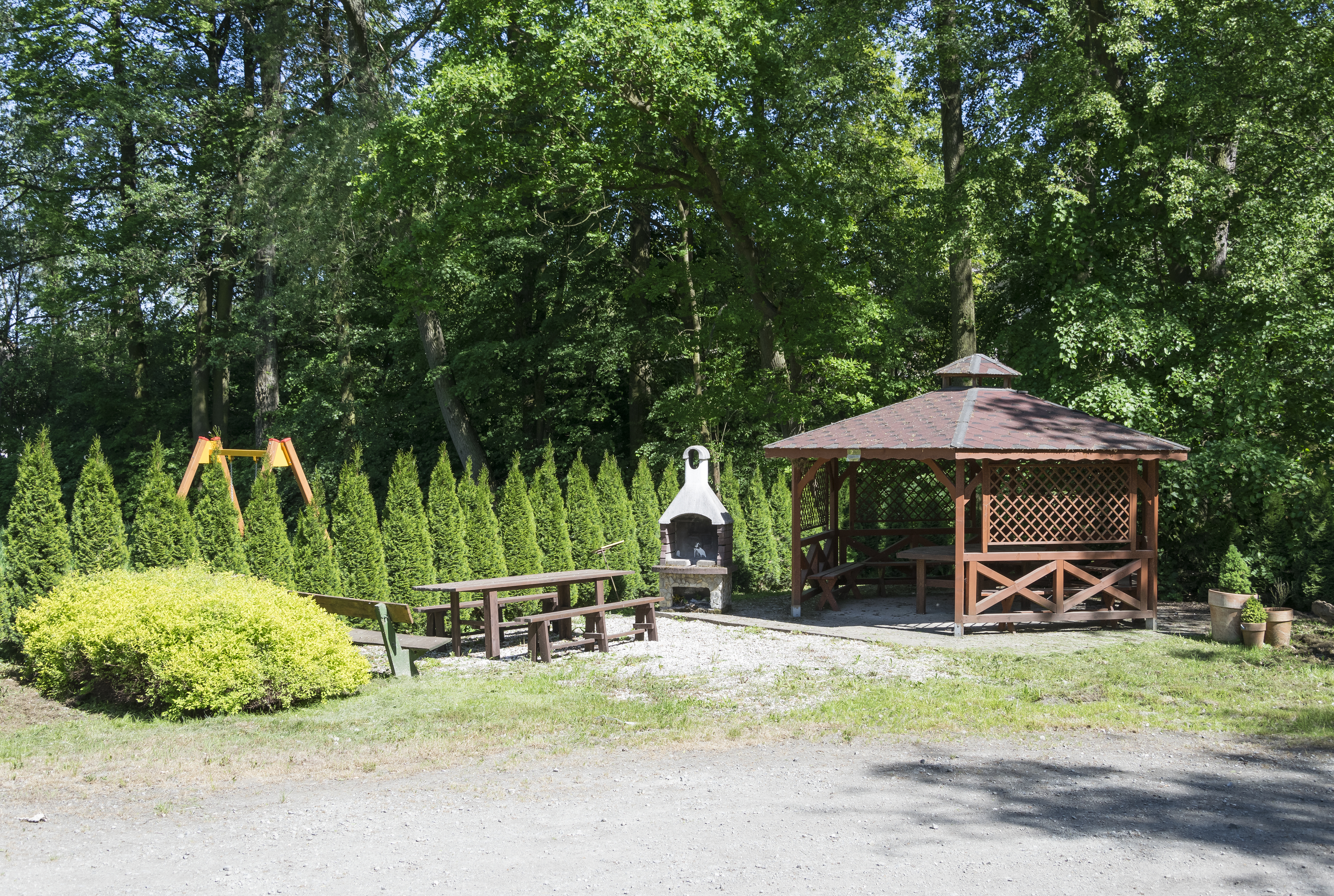 Mikowice